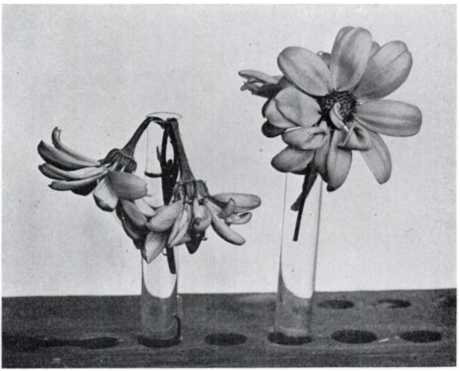 The alleged effect of "menotoxin" on a cinerea flower, shown as Figure 6 in "A phyto-pharmacological study of menstrual toxin." by David I. Macht and Dorothy Lubin. The original description reads: "Figure 6 shows the marked effect of menotoxin on cinerea. In one case the flower was placed in a solution of normal blood serum in distilled water, while in the other the same concentration of menstrual blood serum in distilled water was employed; toxic effects were noticeable within a few hours."